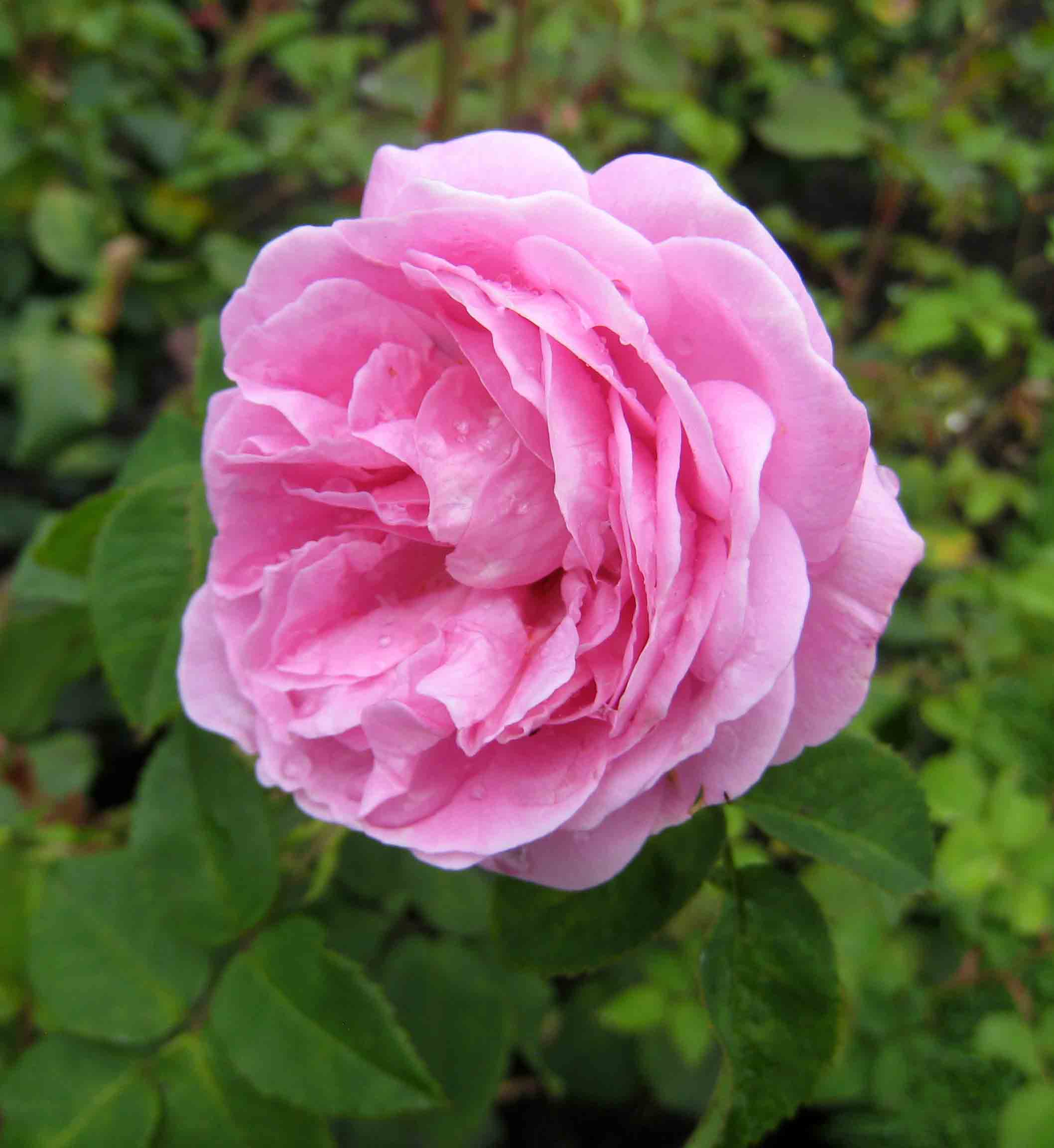 玫瑰 Rosa Louise Odier [紐西蘭 Tauranga Robbins Park, New Zealand]